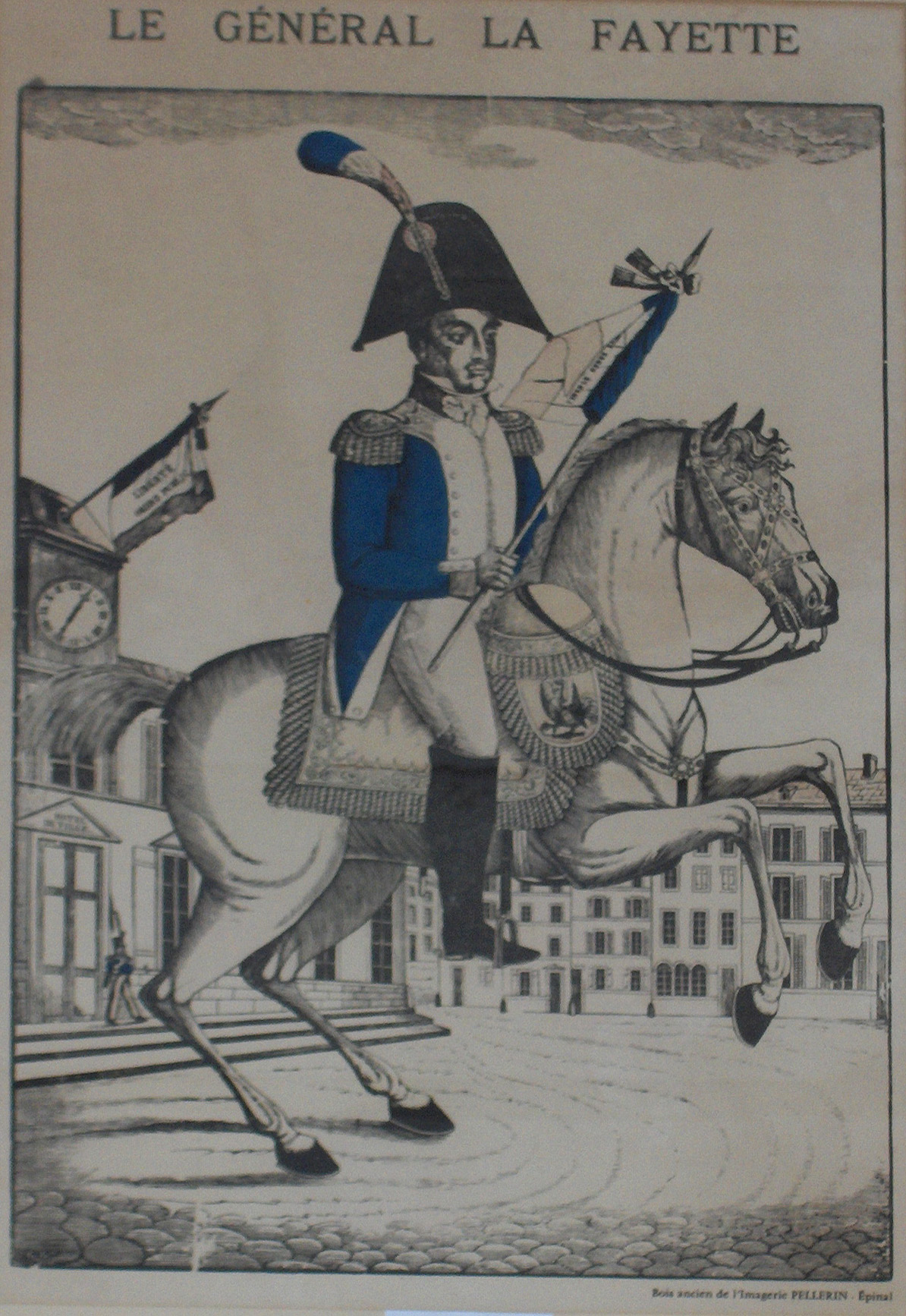 "Le Général La Fayette", engraving (18th century)